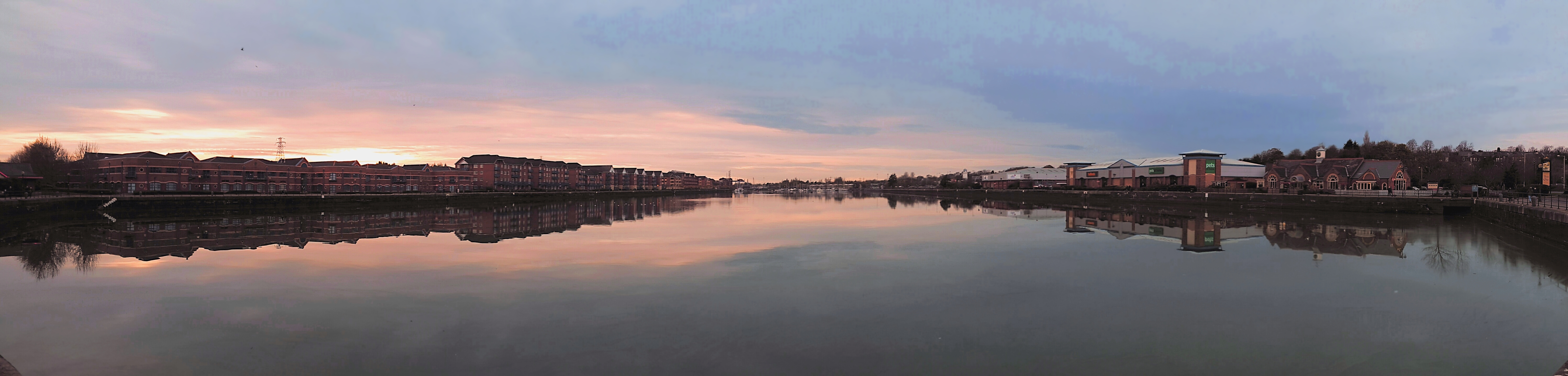 Albert Edward Basin, Preston Lancashire UK, looking west at dusk